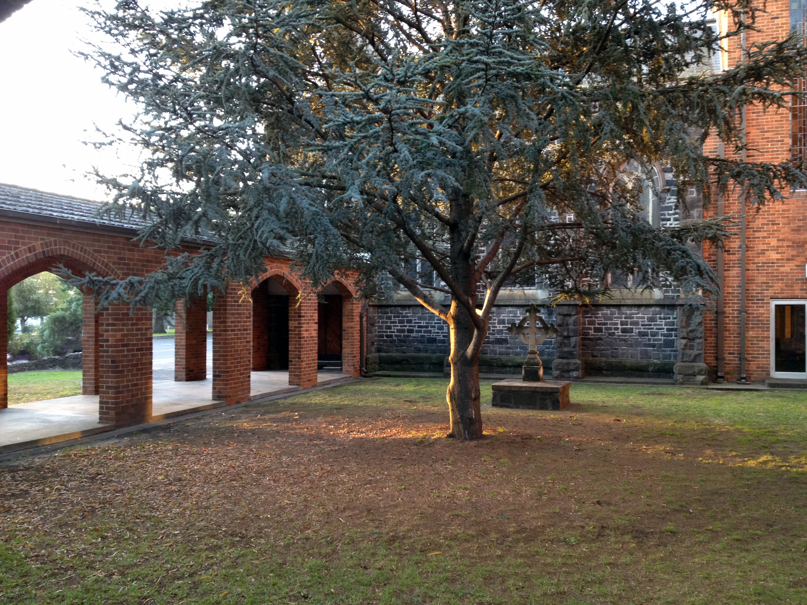 St Andrew's Church, Brighton - Cloister Garden